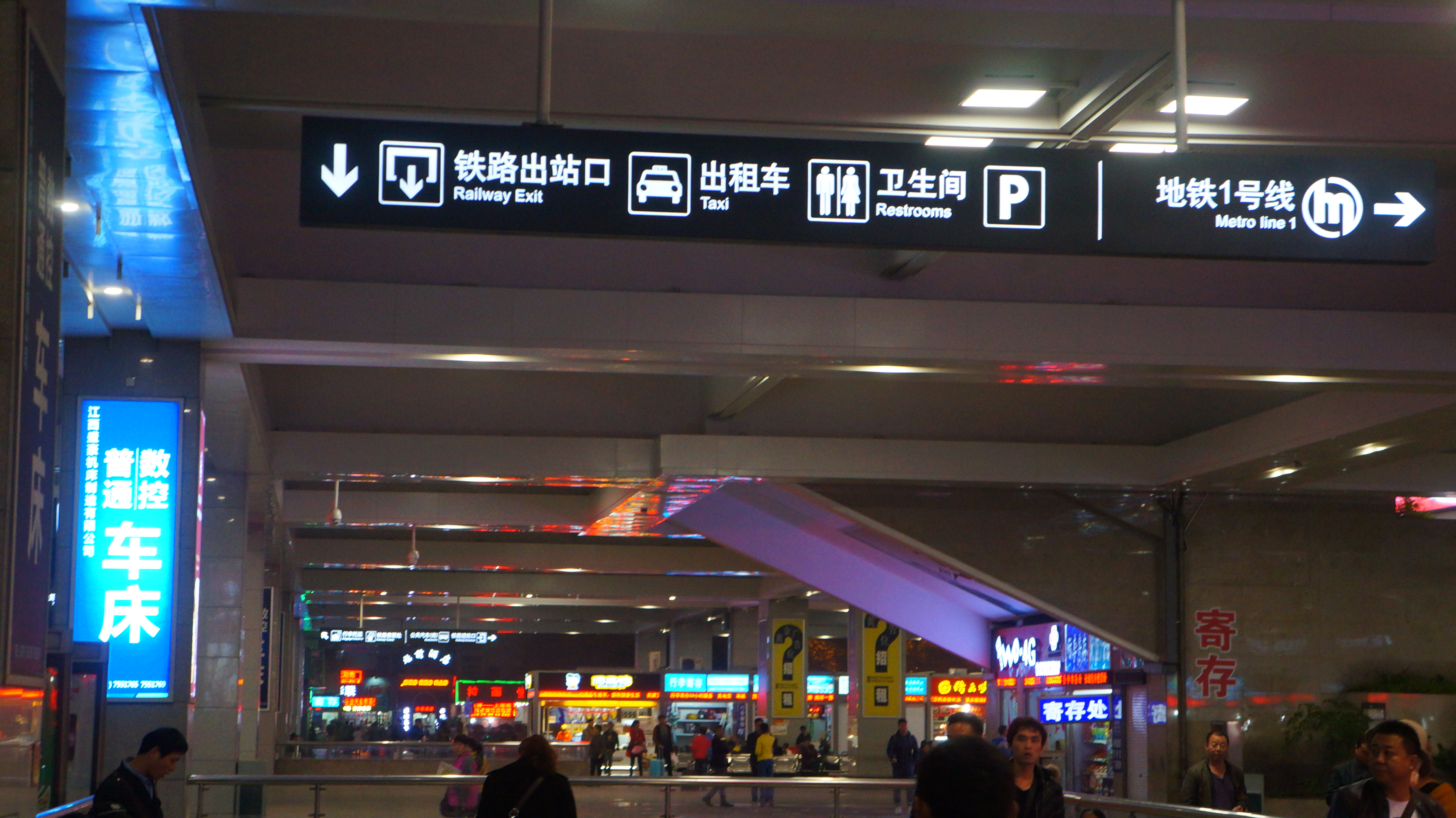 Arrival hall of Hangzhou Railway Station